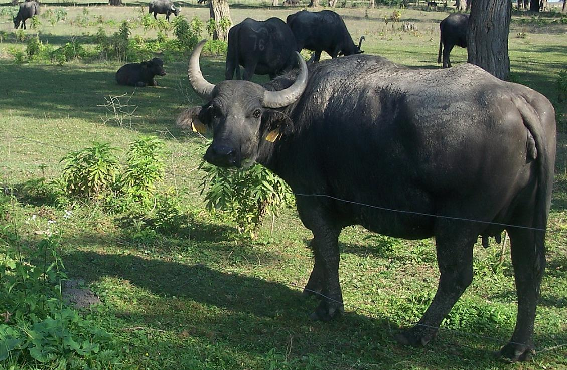 Hungarian buffalo in the buffalo reserve of Kápolnapuszta, Hungary